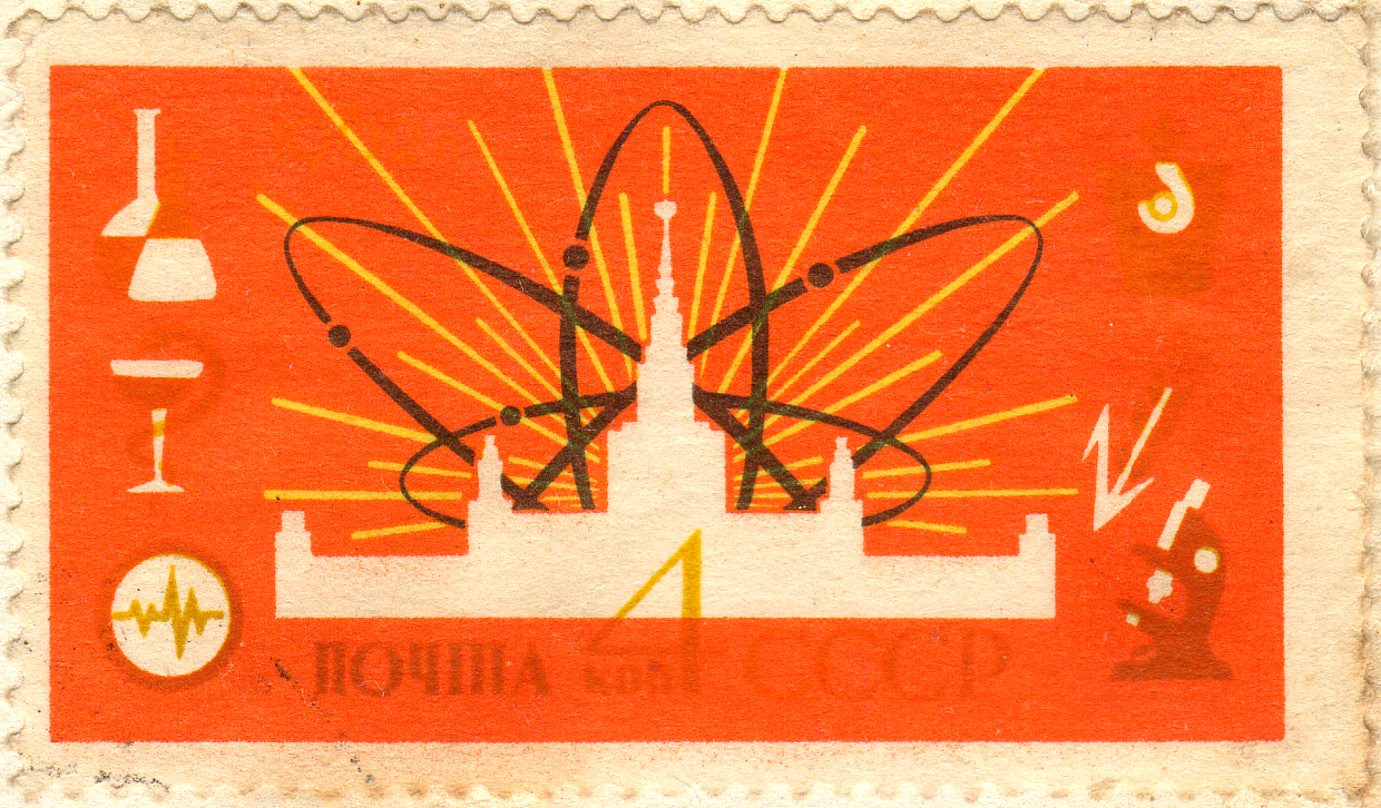 USSR postal stamp of research. Cost 0,04 roubles.